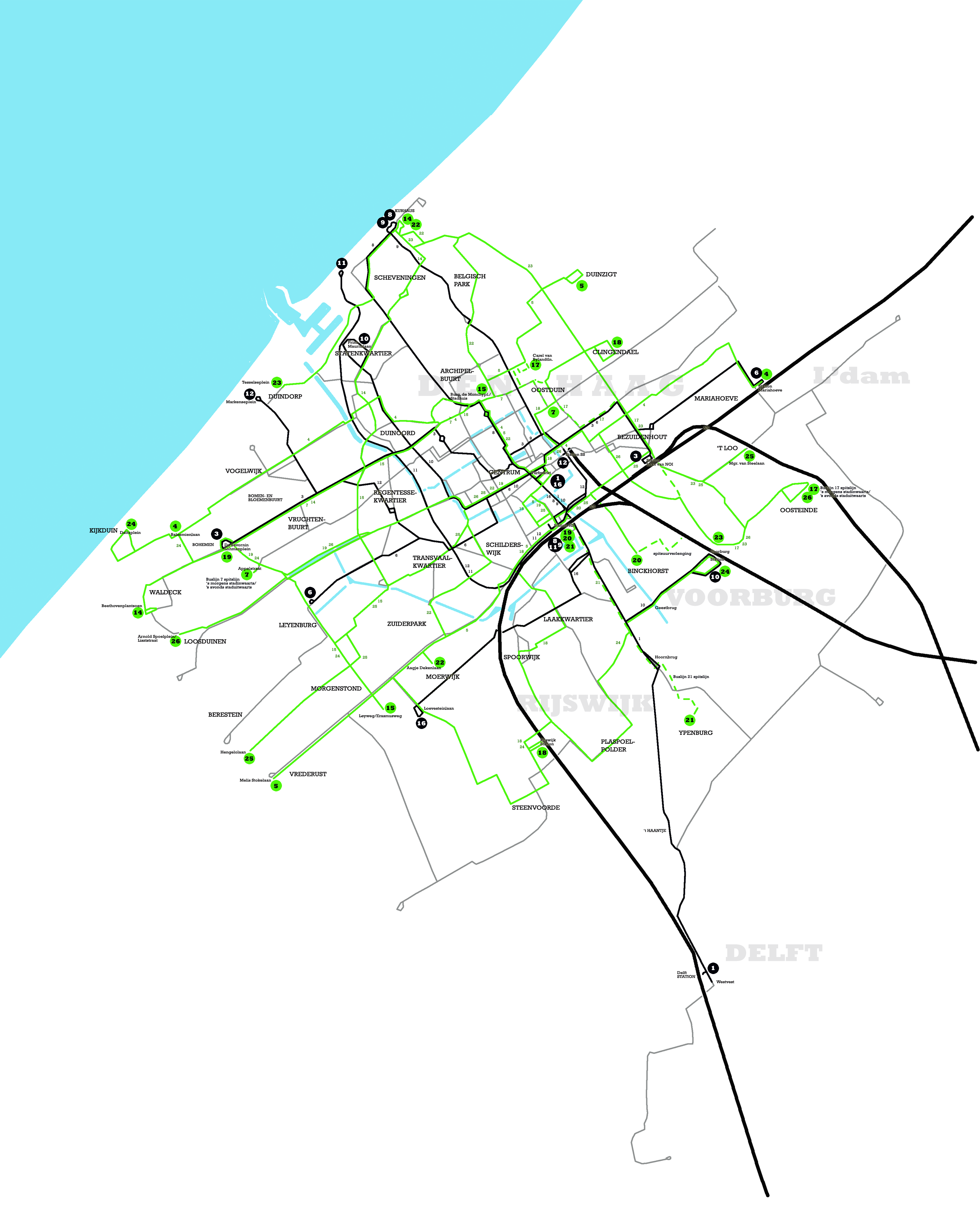 Map of The Hague's public transport system after the Plan-Lehner phases.